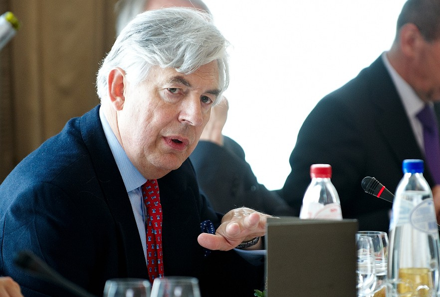 Geoffrey Charles Van Orden MBE (born 10 April 1945) is a British politician and former soldier. He is currently Member of the European Parliament for the East of England region for the Conservative Party. He was first elected to the European Parliament in 1999.